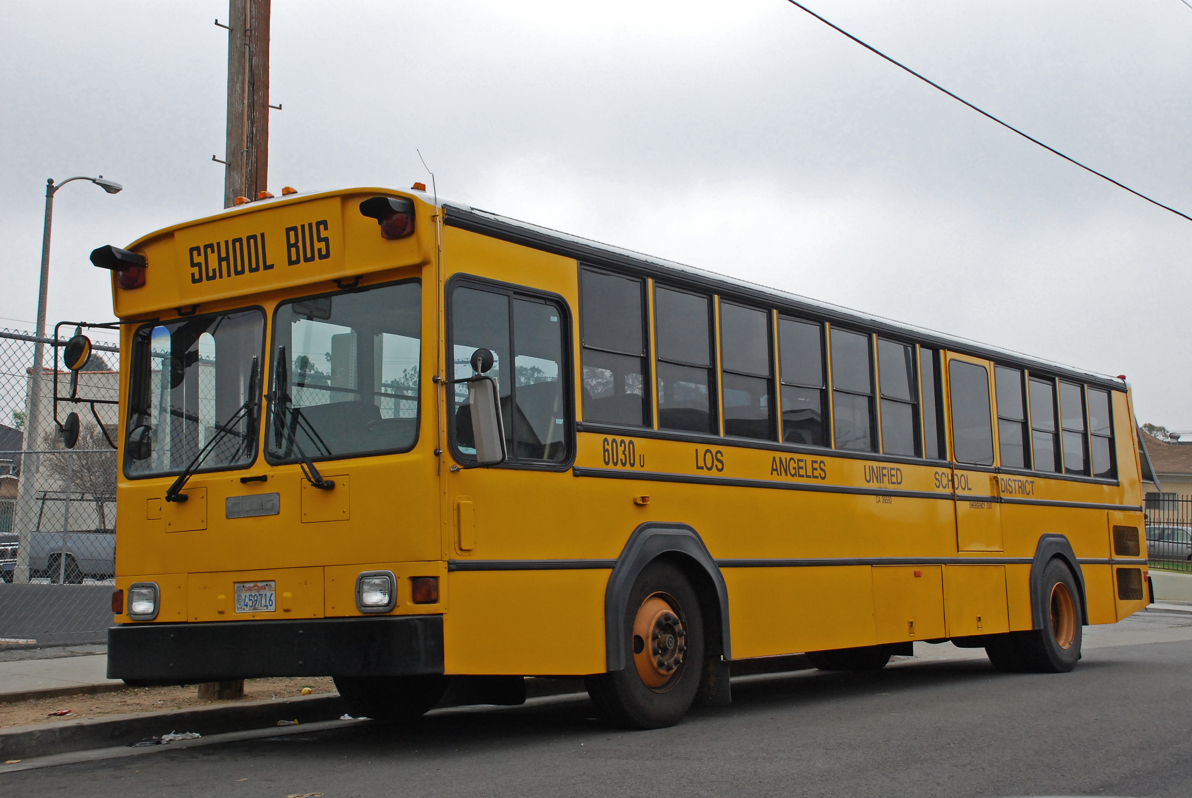 Gillig Phantom School Bus LAUSD